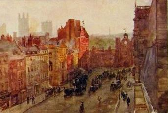 Coloured Victorian chromolithograph«» of St James's Street, London